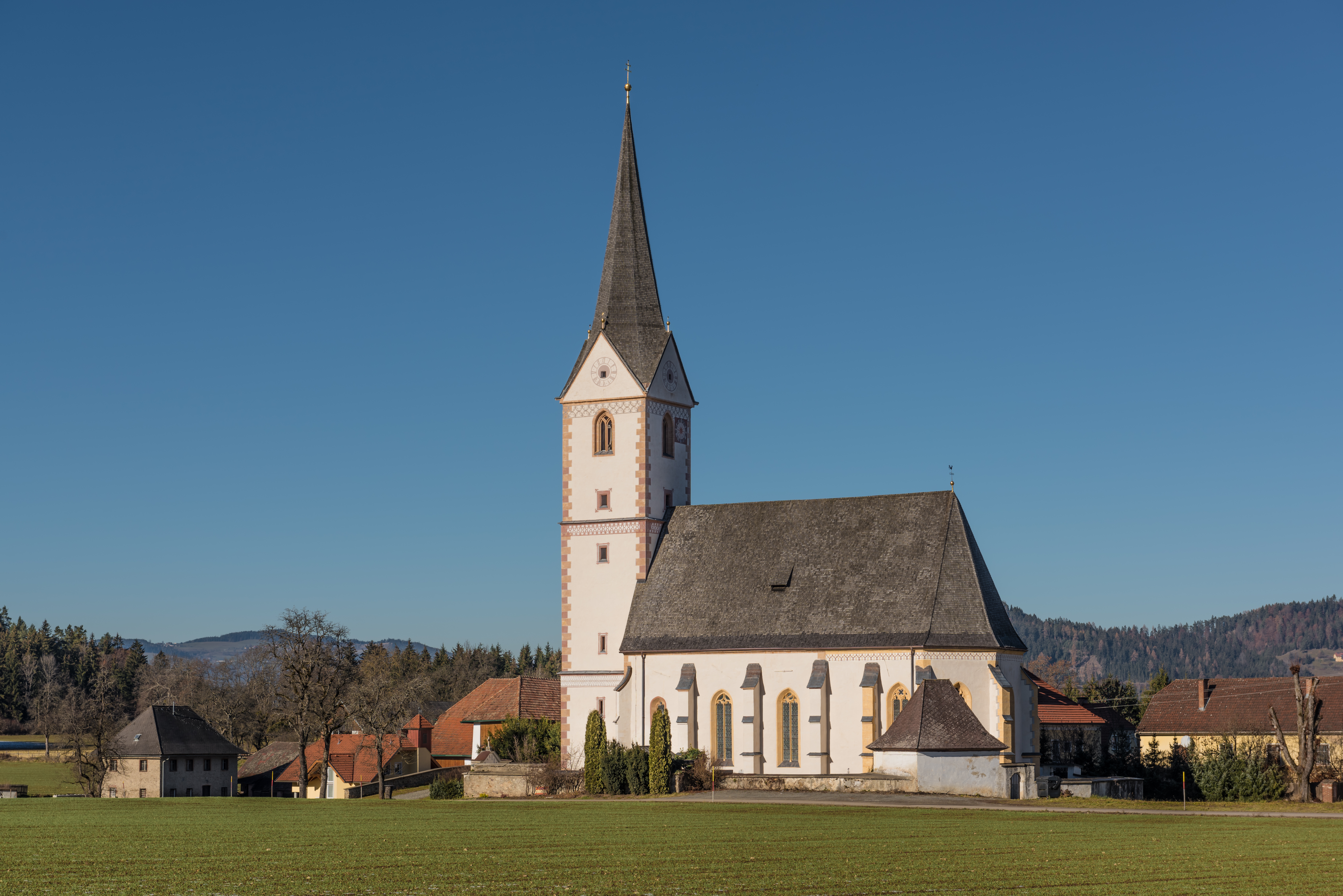 Parish church Saint Sebastian in Sankt Sebastian #15, municipality Sankt Georgen am Längsee, district Sankt Veit an der Glan, Carinthia, Austria, EU